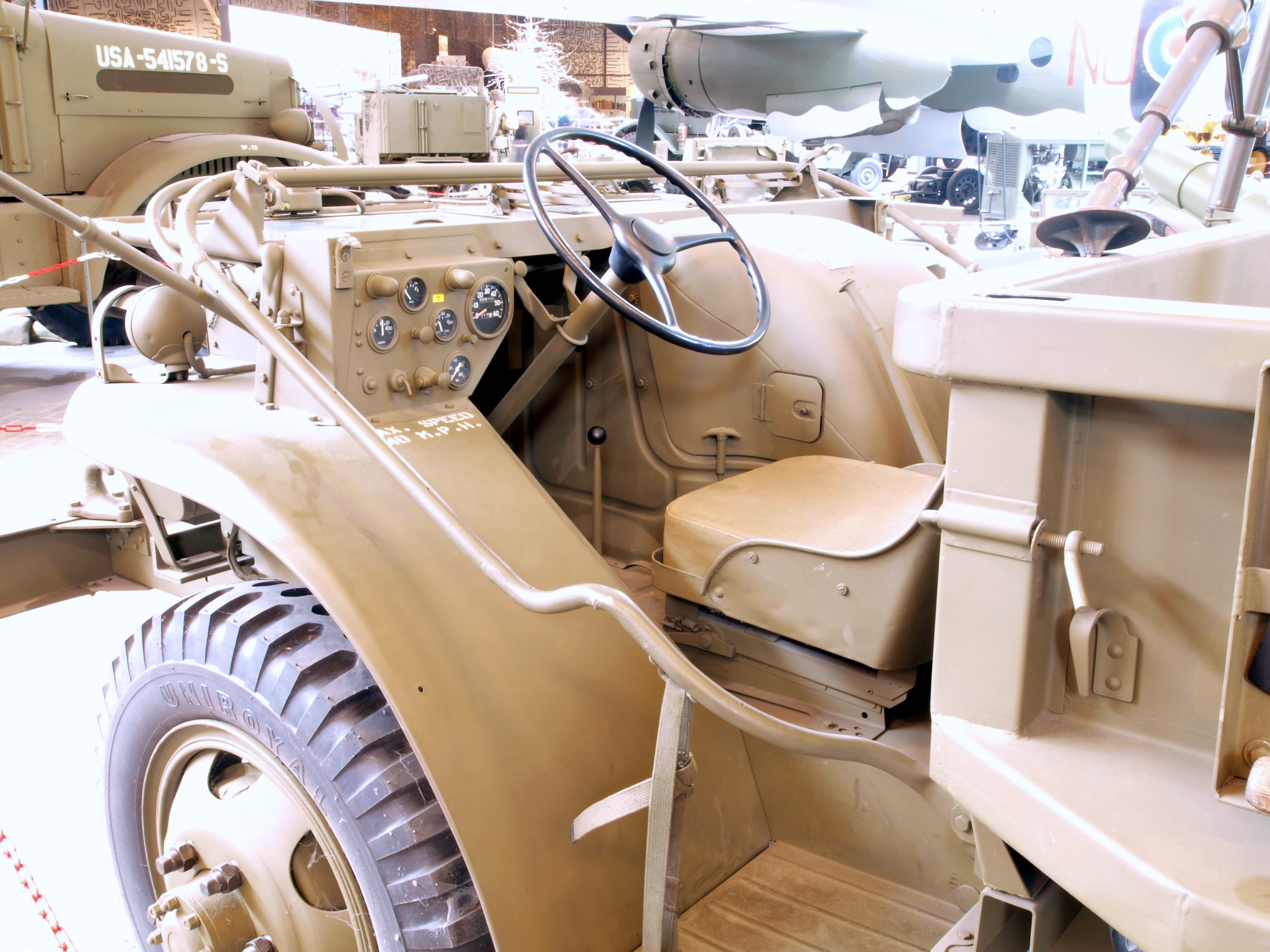 Photographed at the Marshallmuseum - Liberty Park - Oorlogsmuseum Overloon, The Netherlands. OLYMPUS DIGITAL CAMERA